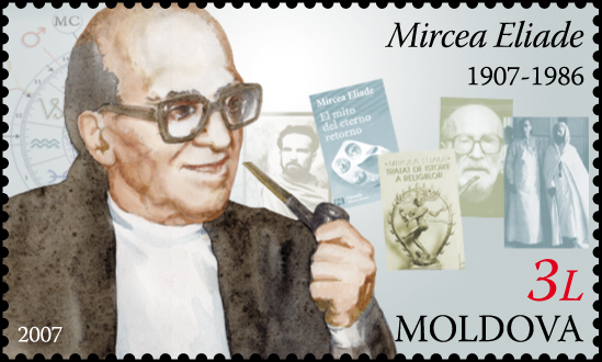 Stamp of Moldova; Mircea Eliade